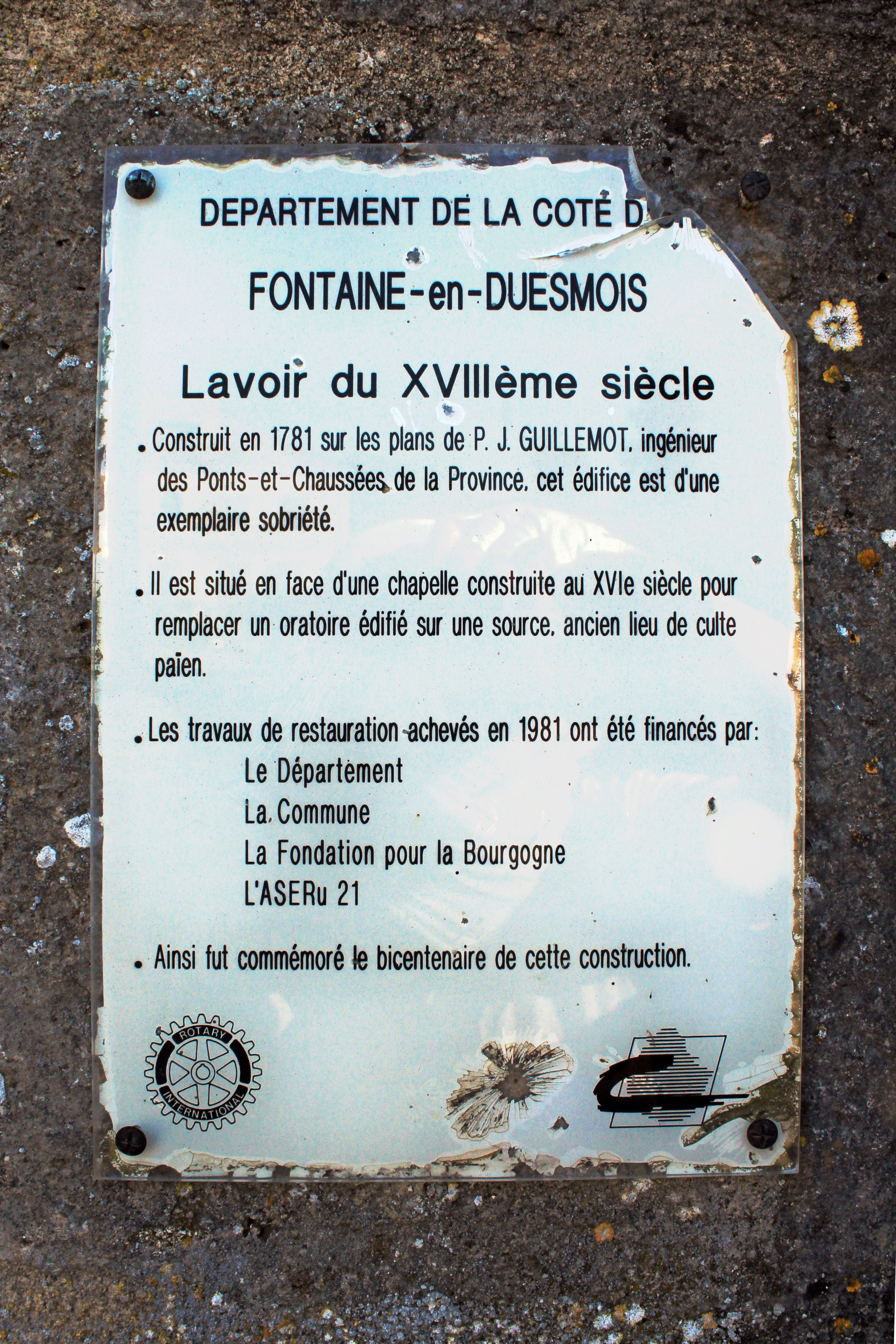 Information about the wash house in Fontaines-en-Duesmois